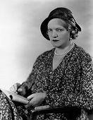 Publicity photo of Nina Wilcox Putnam.